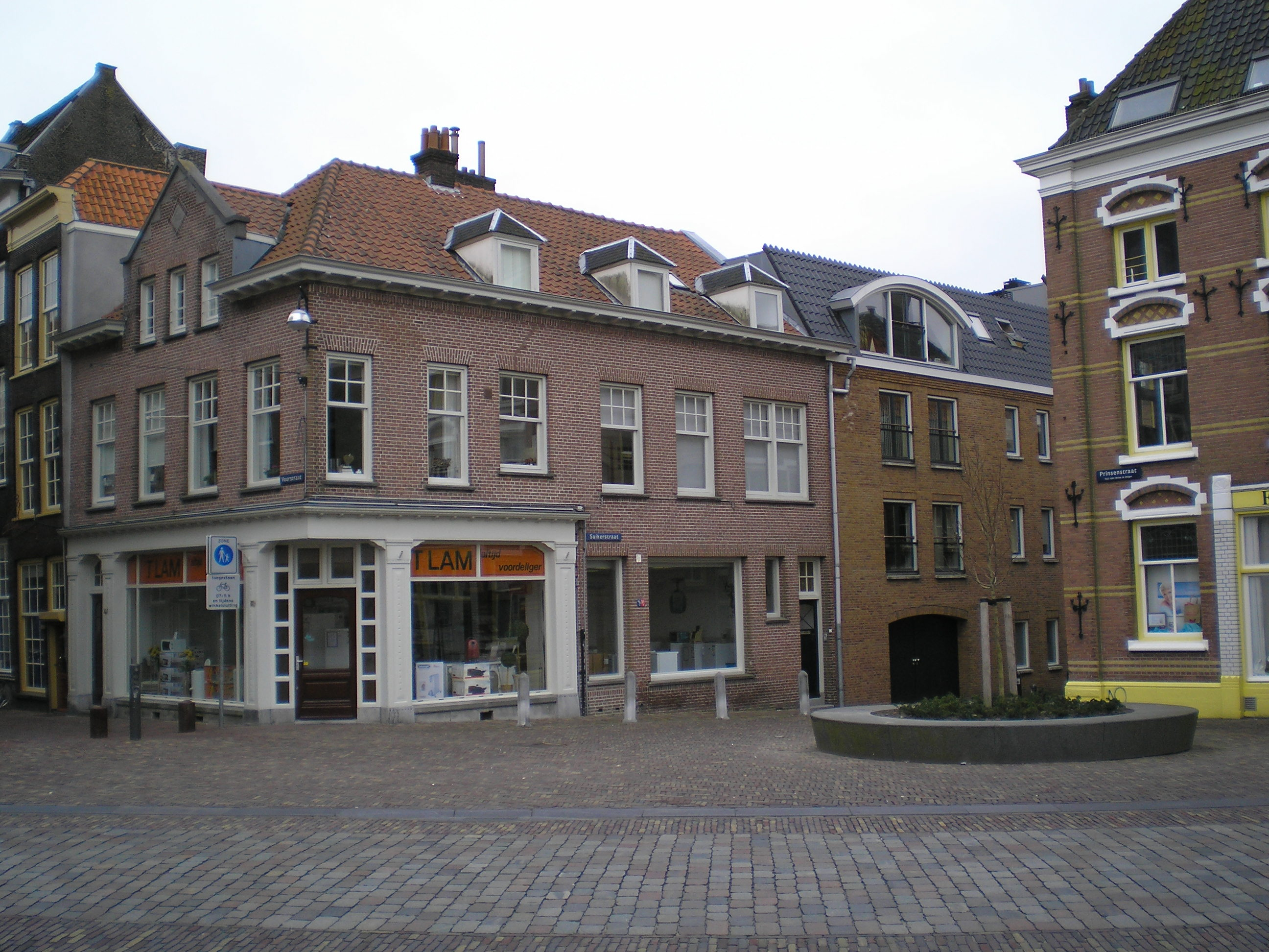 Voorstraat, Suikerstraat and Prinsenstraat in Dordrecht in the Netherlands